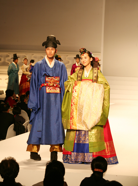 A fashion show introducing the wedding dresses of the bride and bridegroom (Courtesy of Park Sul-nyeo Hanbok) (Source: Han Style)